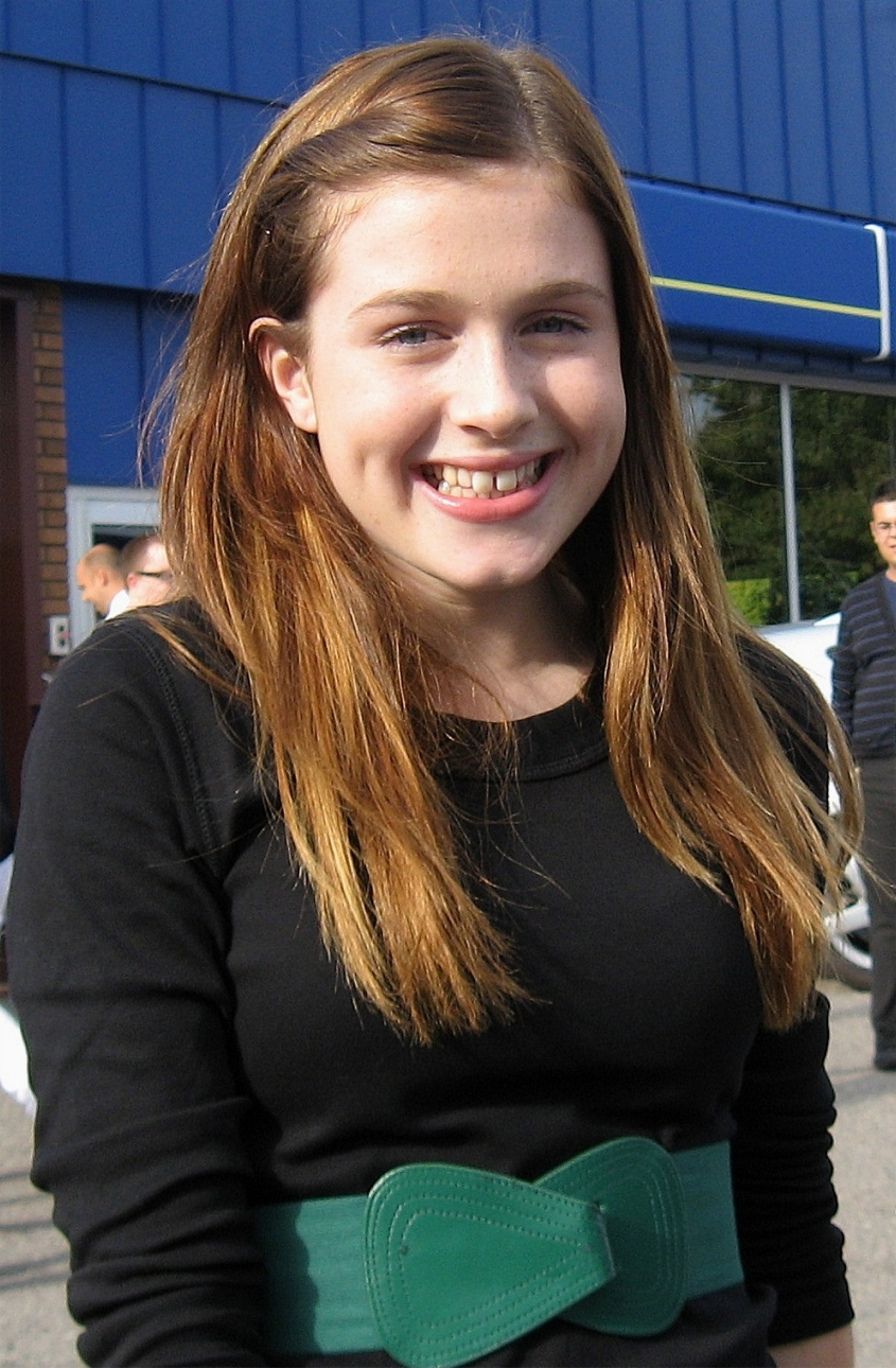 Amy Diamond, after a record-signing in Örebro, Sweden